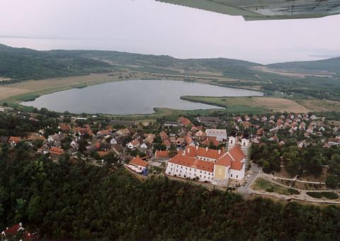 Tihany convent This picture is © copyright Civertan Grafikai Stúdió (Civertan Bt.), 1997-2006.; has been verified that Commons user Civertan is controlled by Civertan Grafikai Stúdió and that it is allowed to relicense content copyrighted to this organization. This work is free and may be used by anyone for any purpose. If you wish to use this content, you do not need to request permission as long as you follow any licensing requirements mentioned on this page.